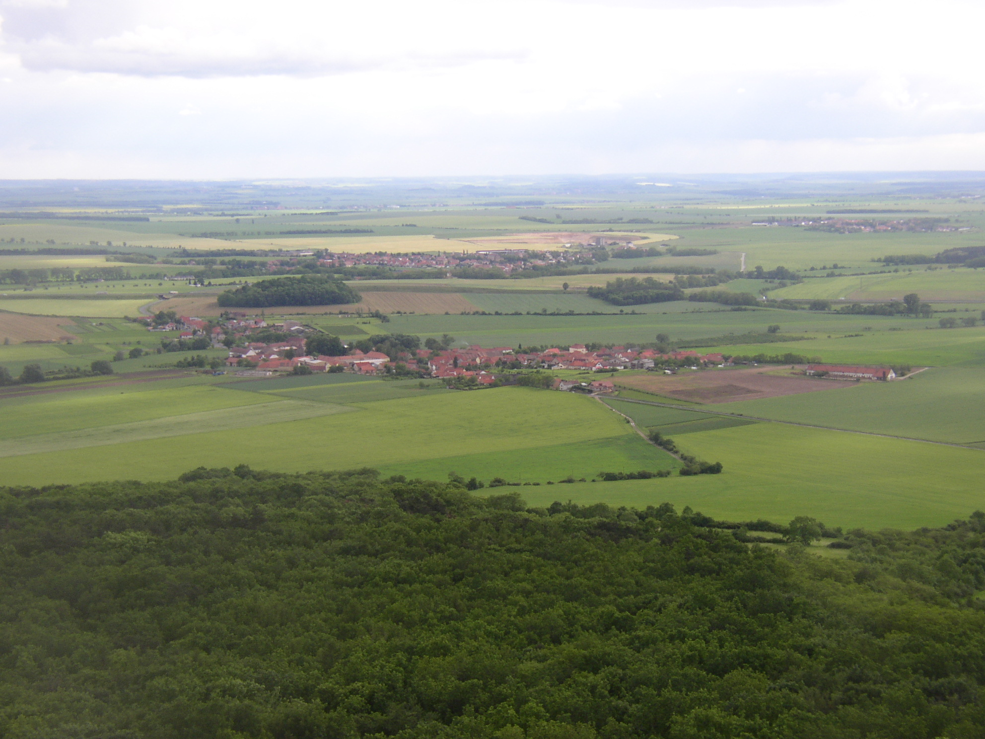 A view from the Říp Mountain towards the southwest. In the foreground village of Vražkov, a bit further beyons the small island of wood and Highway D8 there lies village of Straškov-Vodochody, in a distance of about 3.5-4 km. In the right background village of Bříza, some 6 km away.